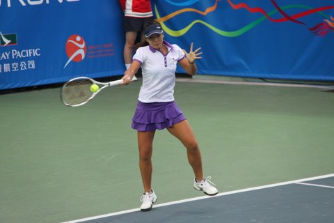 Hong Kong tennis player Zhang Ling at the Hong Kong Tennis Classic tournament, 2011